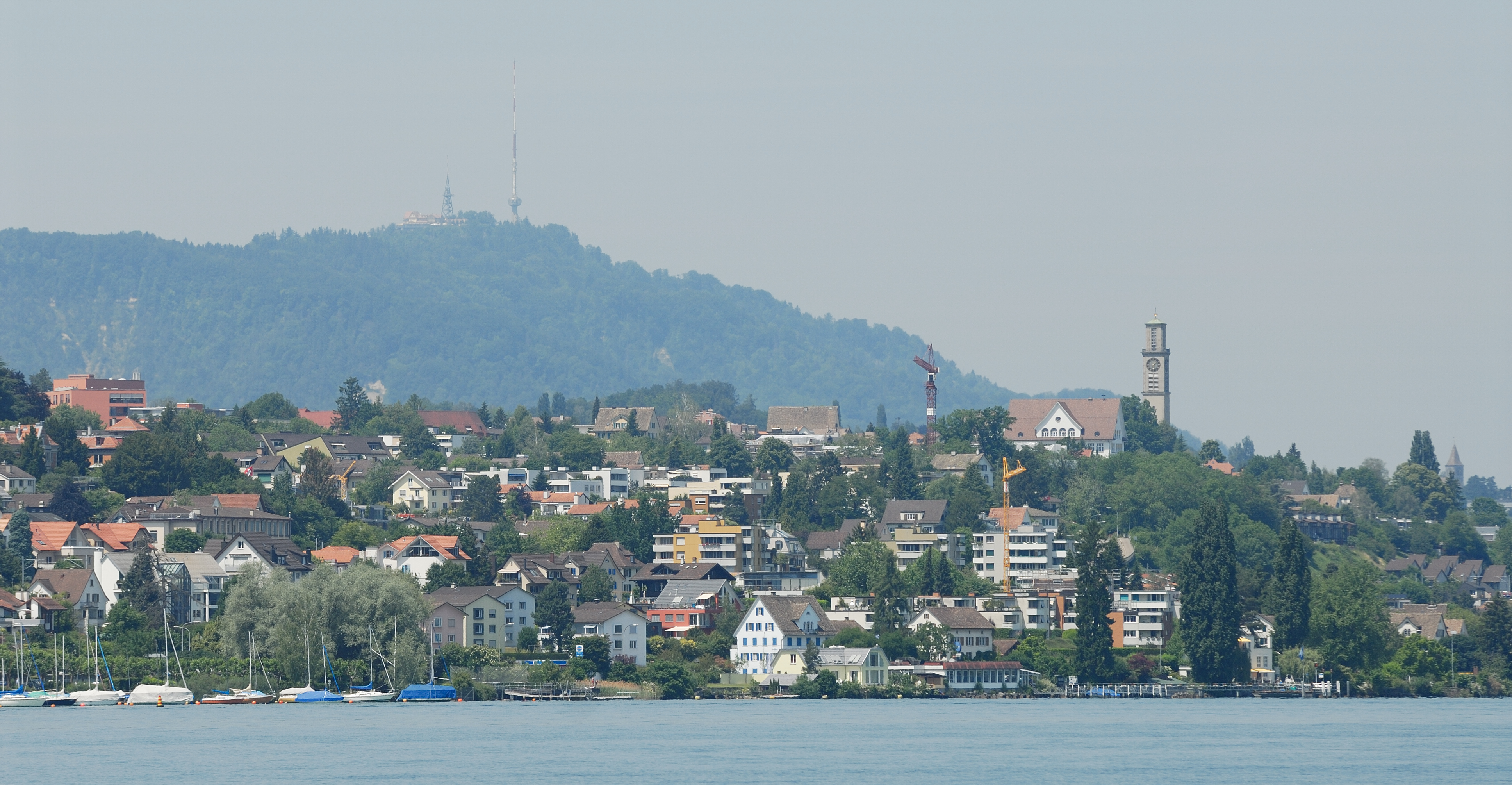 View of Thalwil and Uetliberg from Lake Zürich.